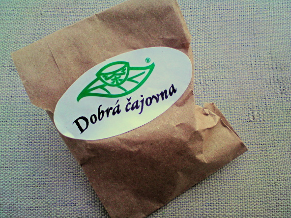 Sack with tea from Dobrá čajovna.